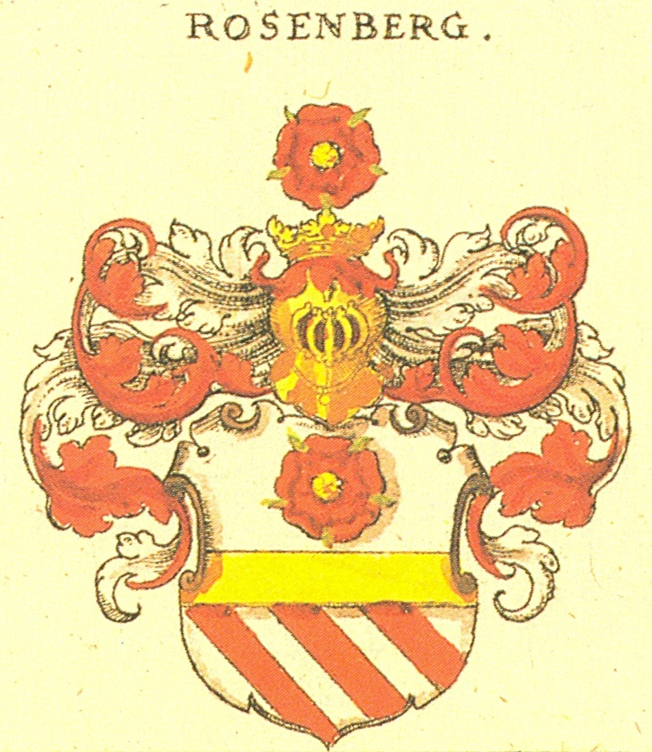 Coat of arms of Rosenberg